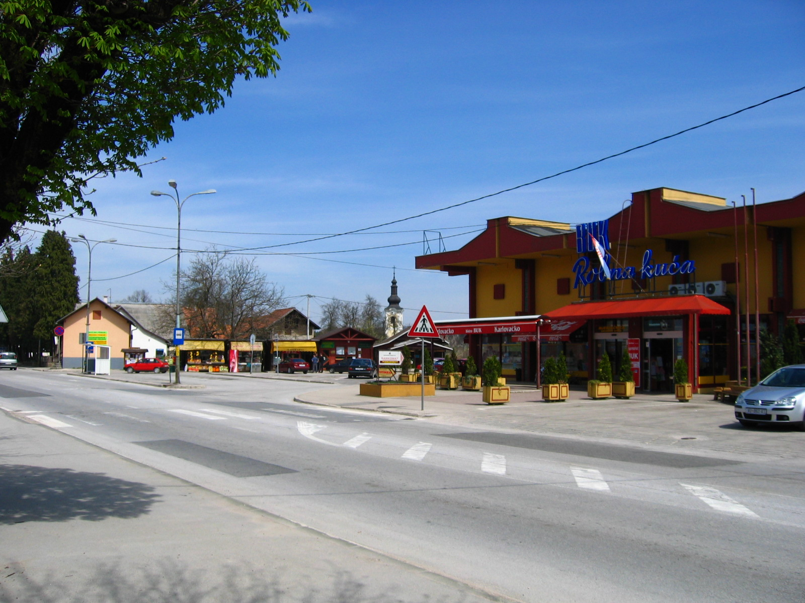 Slunj, Croatia. In front of "Buk" supermarket in town center. Picture taken in April 2006.